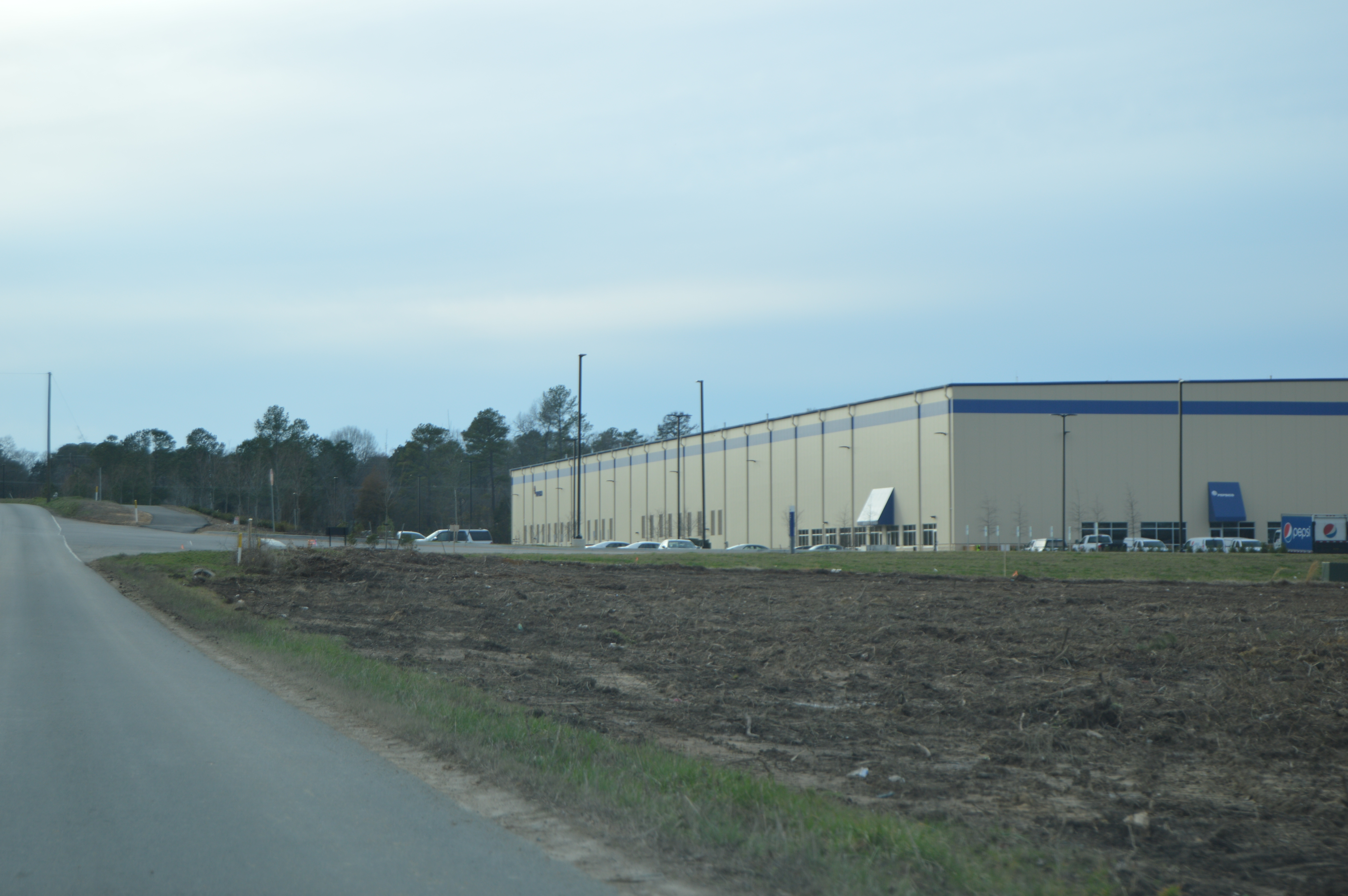 Overview of the former site of Kingsland, located along Willis Road just east of Interstate 95 in Bellwood in Chesterfield County, Virginia, United States. The plantation house was listed on the National Register of Historic Places in 1975; although it has been removed, the house is officially still listed on the National Register.